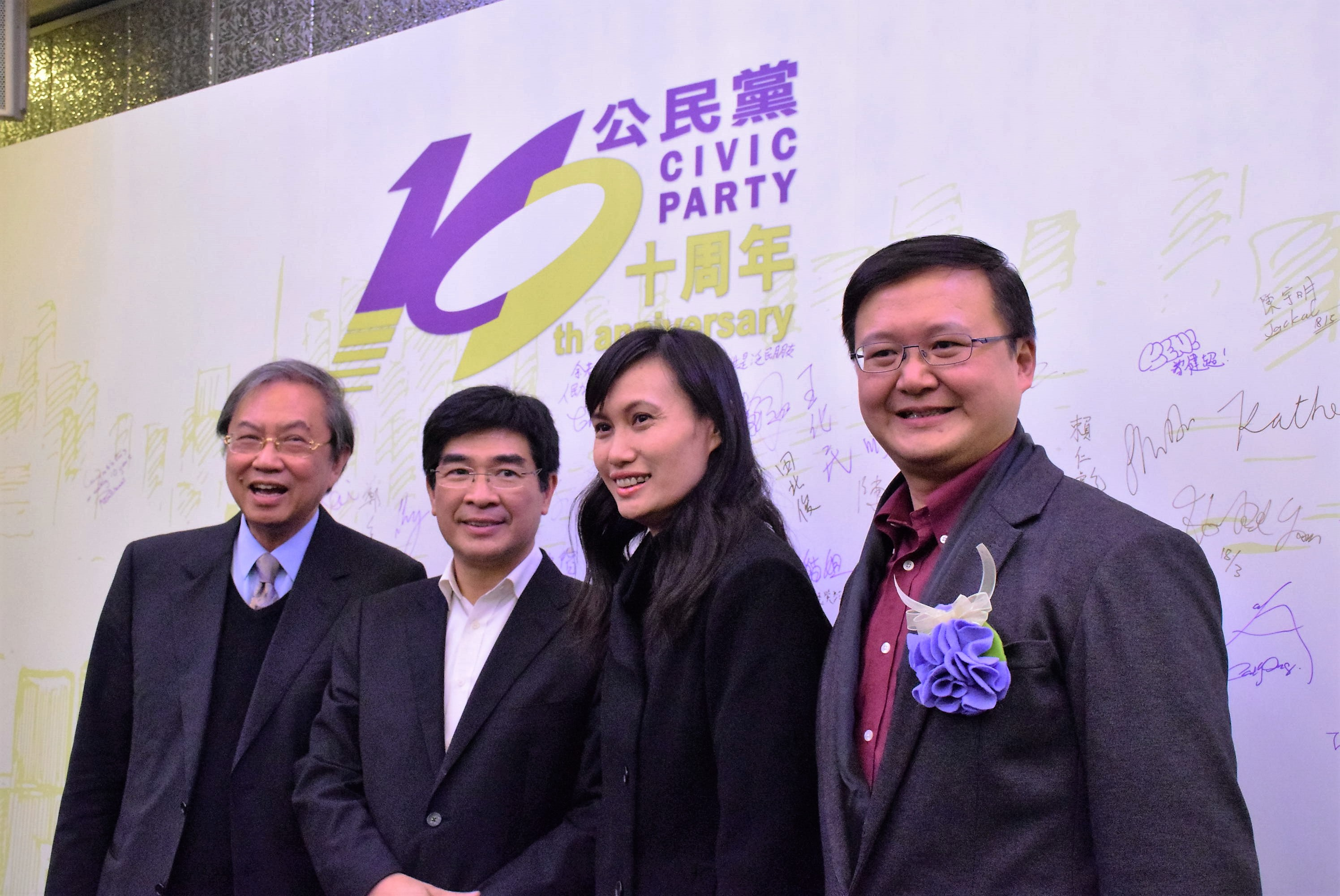 Civic Party 10th Anniversary